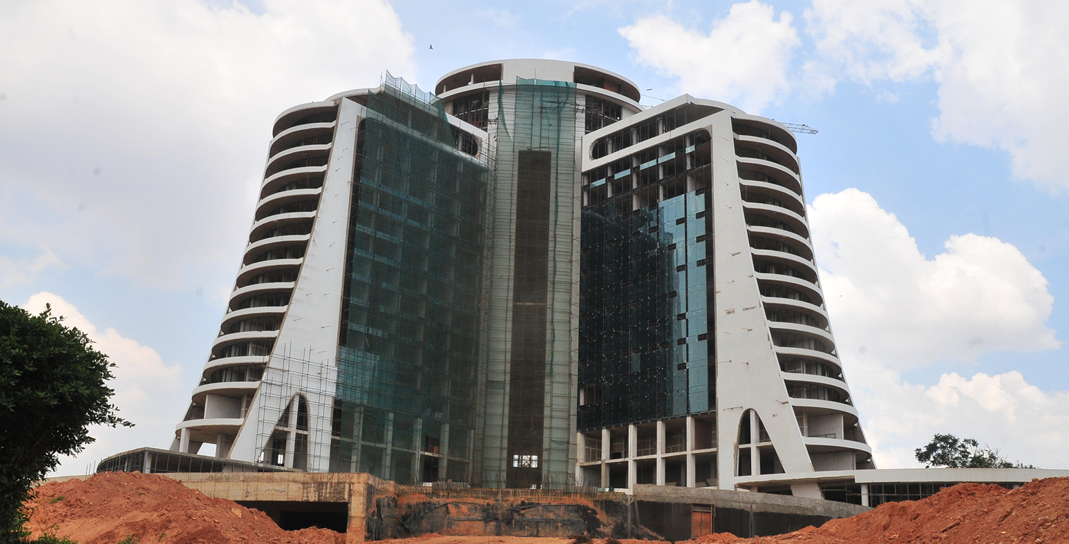 Front view of the construction progress of Kampala Hilton Hotel at Nakasero hill